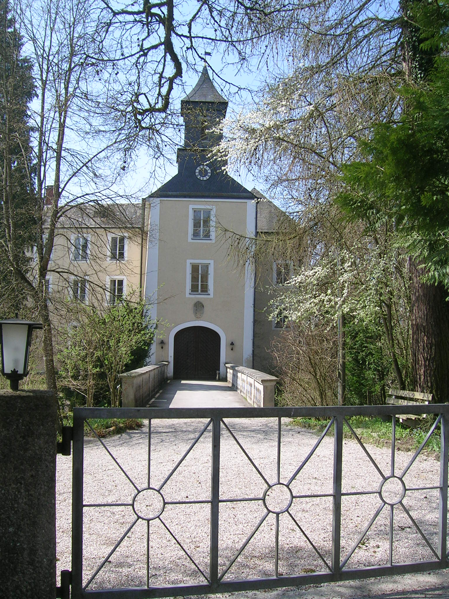 Castle Altenburg (Feldkirchen-Westerham)